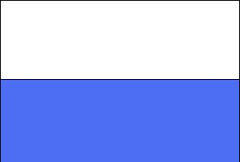 Flag of the Jewish Military Union - ŻZW